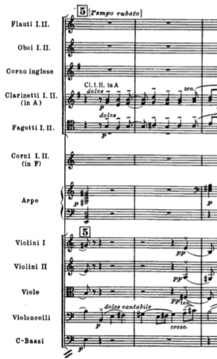 picture of some bars of the 1st mov. of Rachmaninoff's Symphony number 3, edited by New York: Charles Foley, 1937